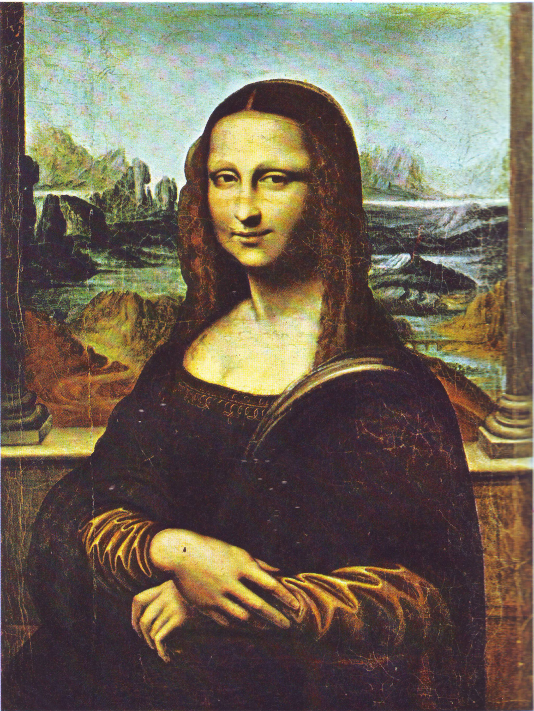 Early replica of Mona Lisa: The Walters Art Museum, Baltimore, Maryland